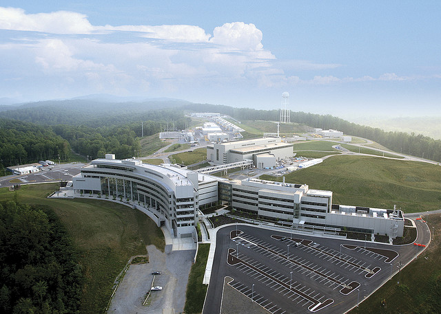 The Spallation Neutron Source was completed in Oak Ridge in 2006. The $1.4 billion facility was completed on time and on schedule. It is the world’s largest and most advanced center for advanced materials studies.